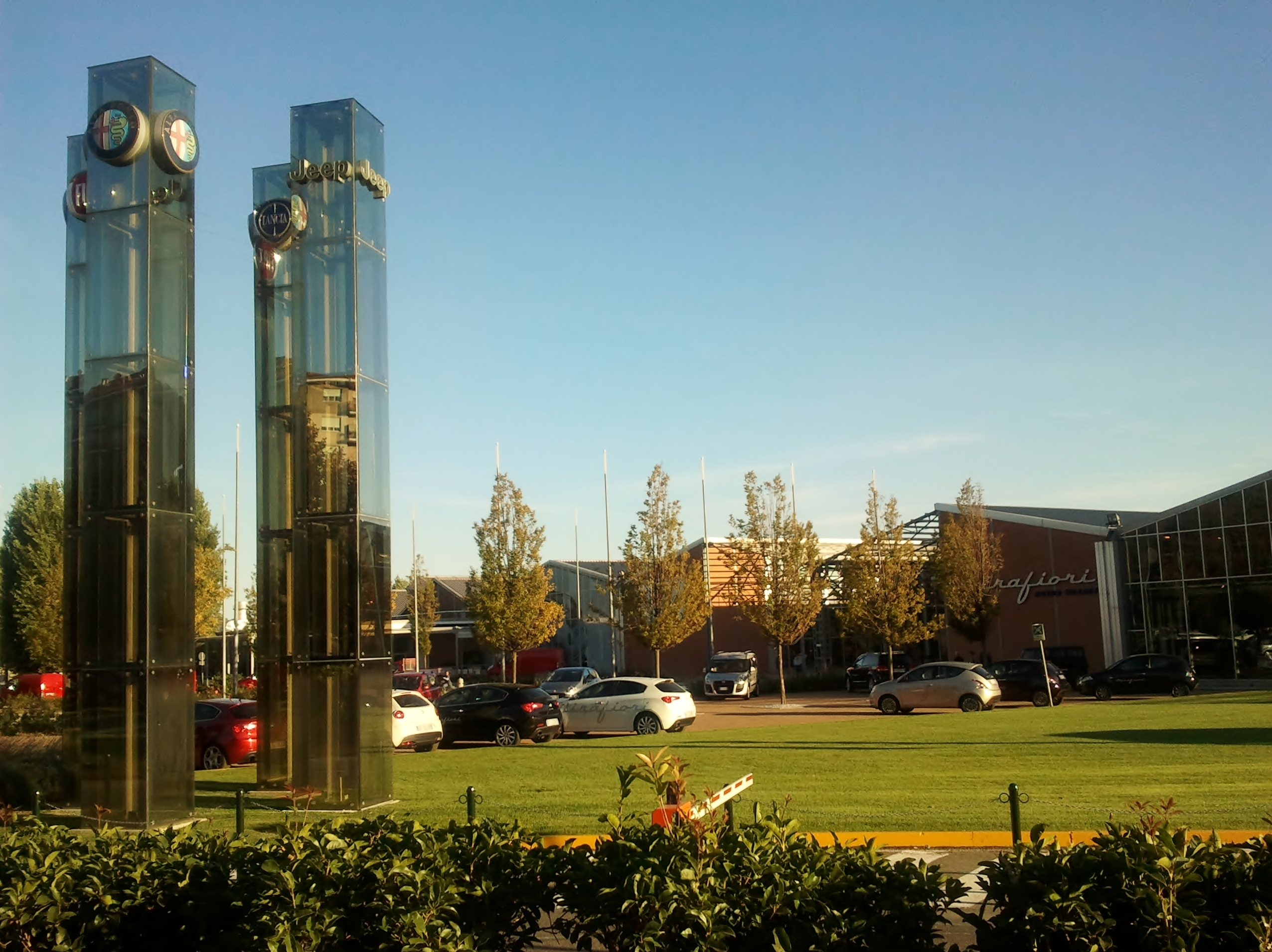 Mirafiori Motor Village. Torino. Italy